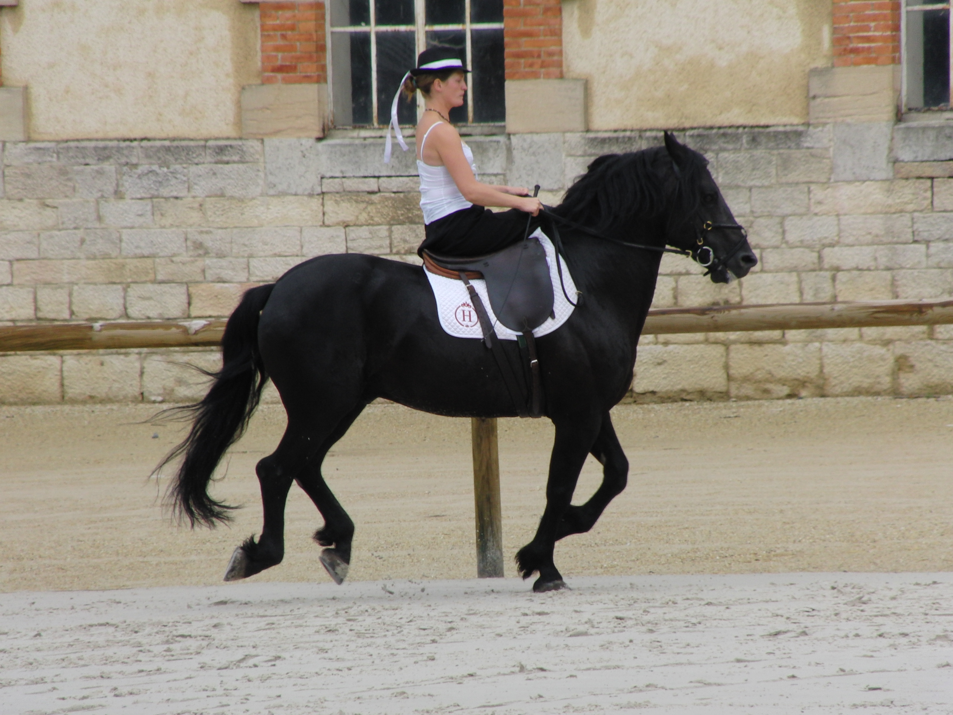 Mérens stallion ridden sidesaddle - Haras de Cluny, Saône-et-Loire, France